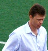 Igor Lediakhov as coach of FC Spartak Moscow